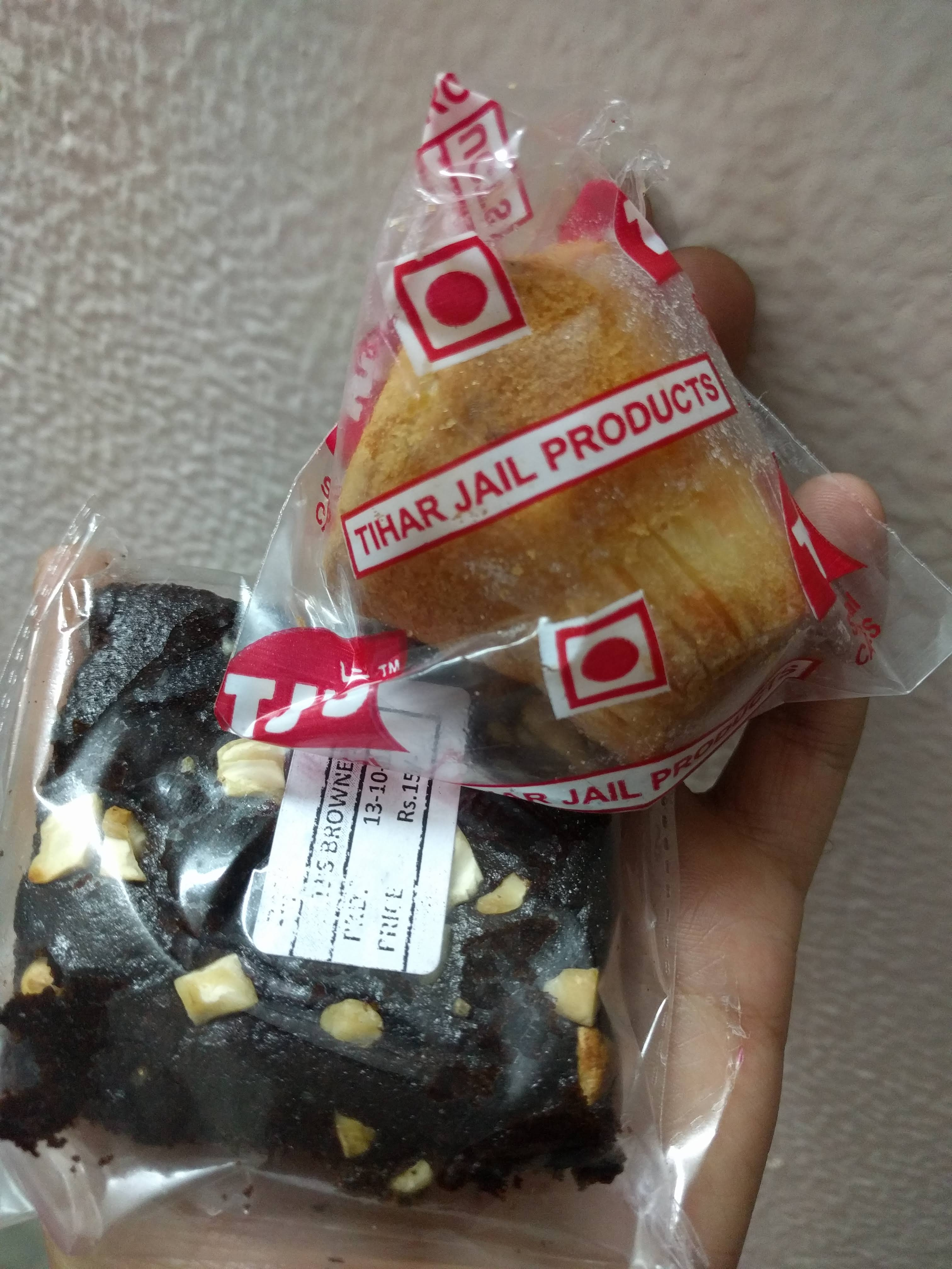 Tihar Jail Products Muffin and Brownie. Bought from a Human Rights mela (festival), Connaught Place, Rajiv Chowk, New Delhi organised by National Human Rights Commission, India